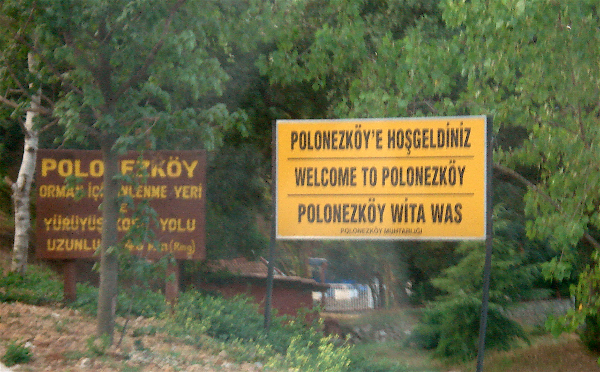 Welcoming to Polonezköy in 3 languages: Turkish, English and Polish